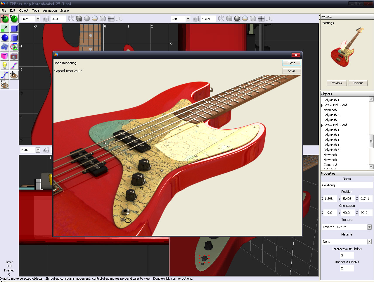 Art of Illusion 2.3.1 screenshot, showing default interface, plus: PreviewPlugin and Nathan K.'s added icons.